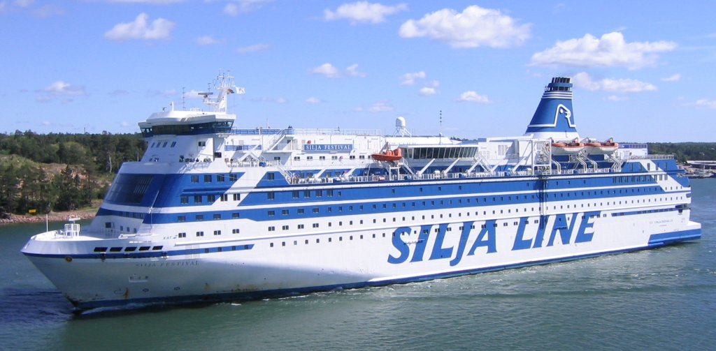 M/S Silja Festival in Åland archipelago, Finland